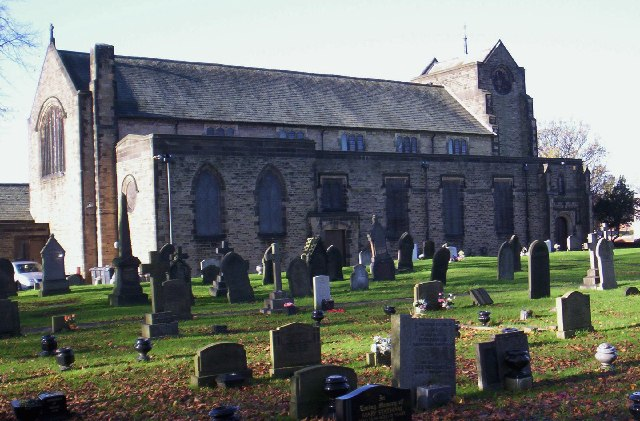 Parish church of St John the Evangelist, Abram, Greater Manchester, seen from the southeast